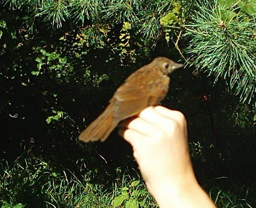 My photo of a veery ( Catharus fuscencens). Photographed at the McGill Bird Observatory in Montreal, Quebec.